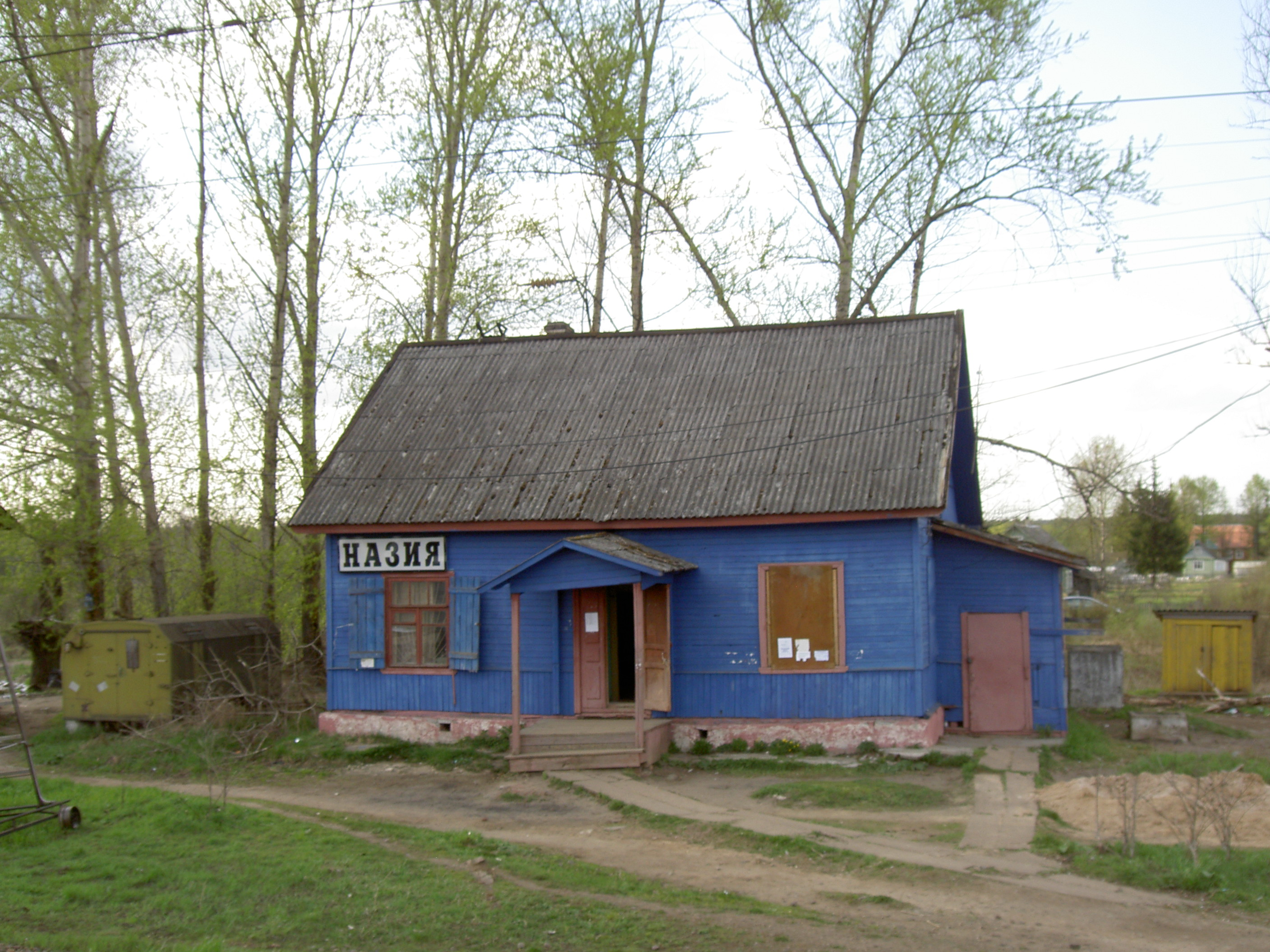 Naziya station.